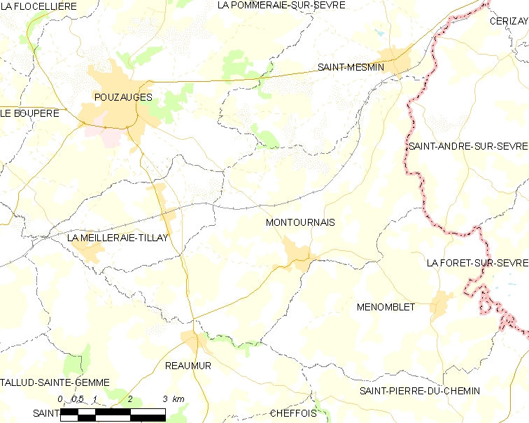 Map of French municipality Montournais